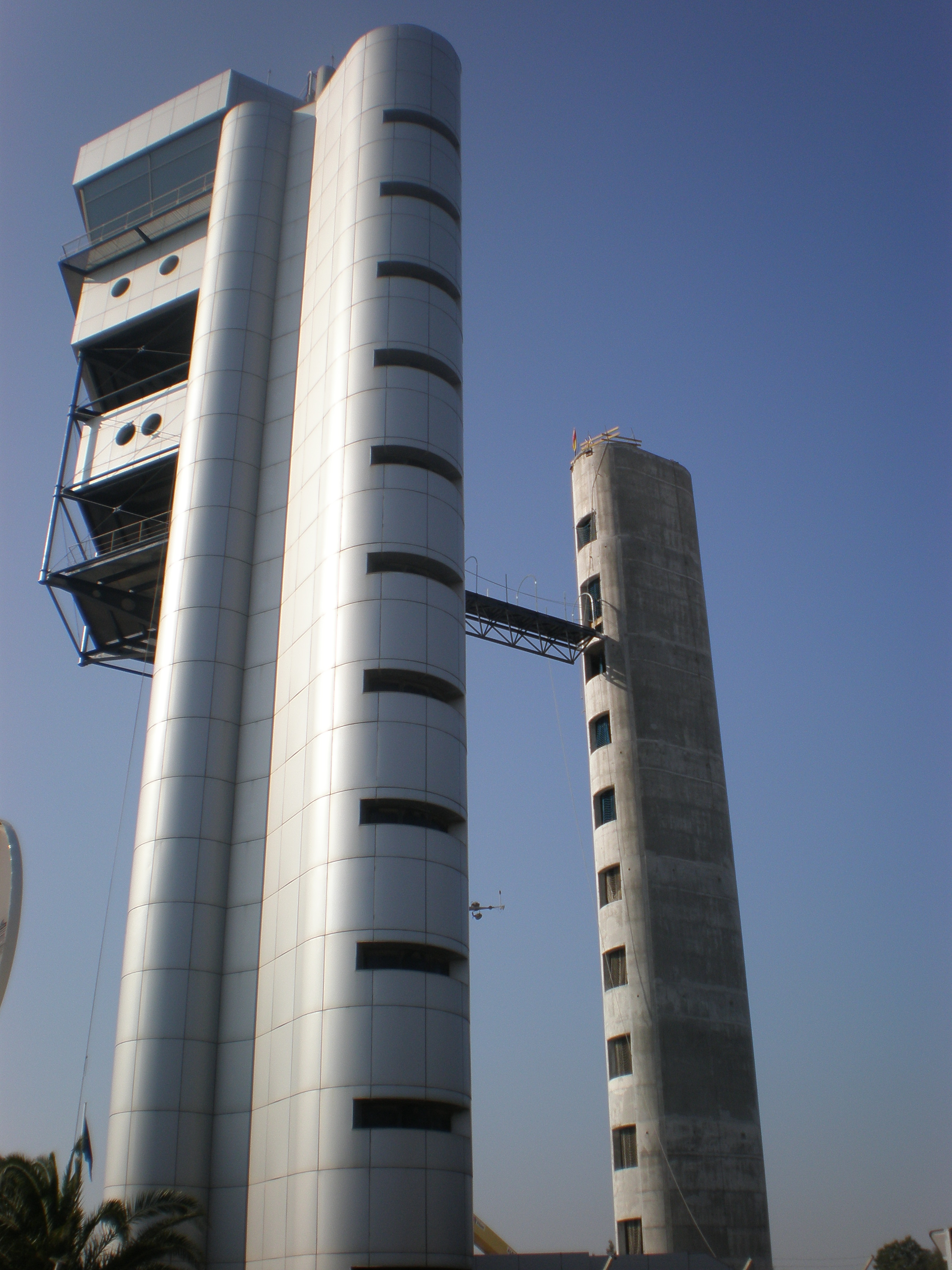 Alicante Airport: Control Tower & Auxiliar Tower